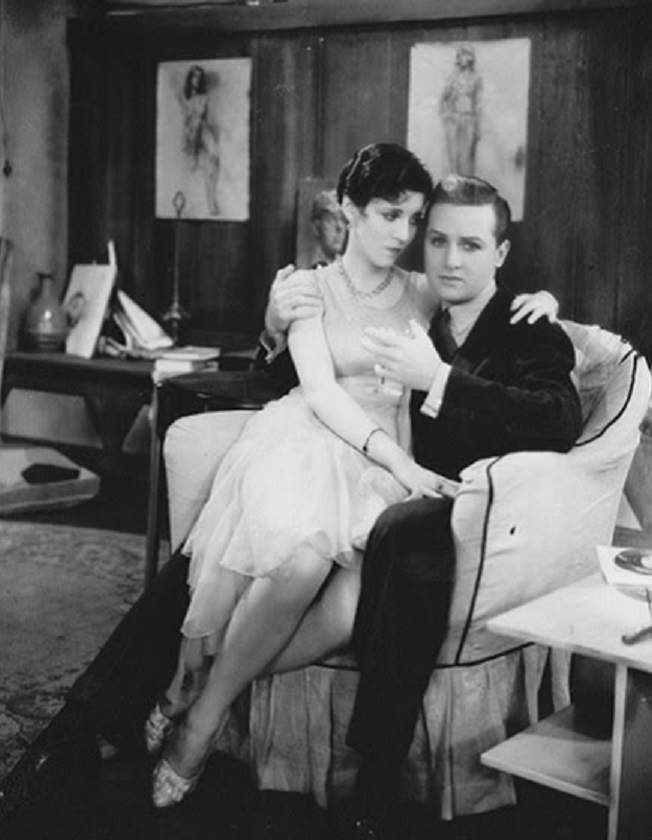 Olive Borden and Morgan Farley in the American film Half Marriage (1929) - publicity still.